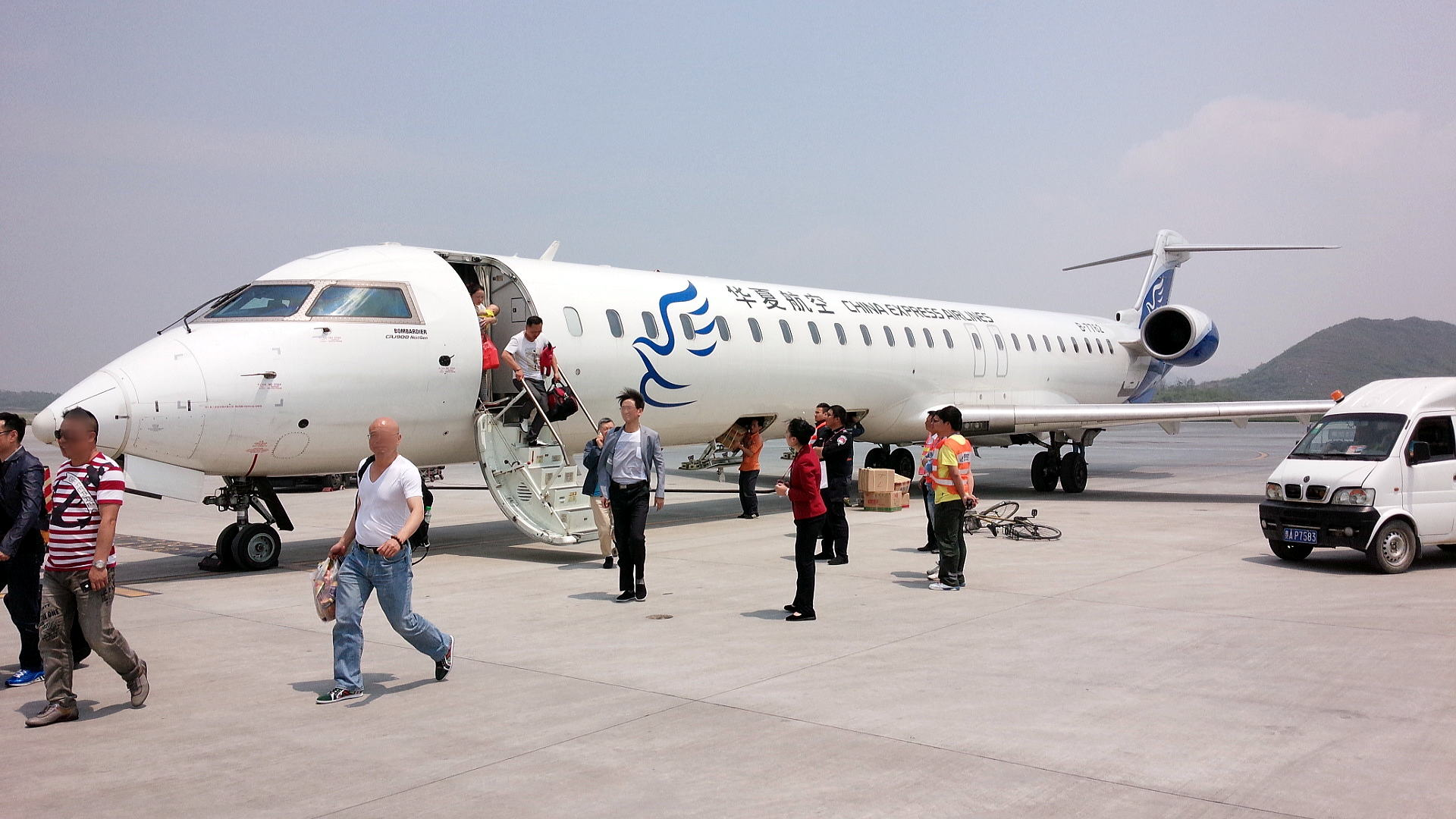 China Express CRJ900 at Guiyang International Airport